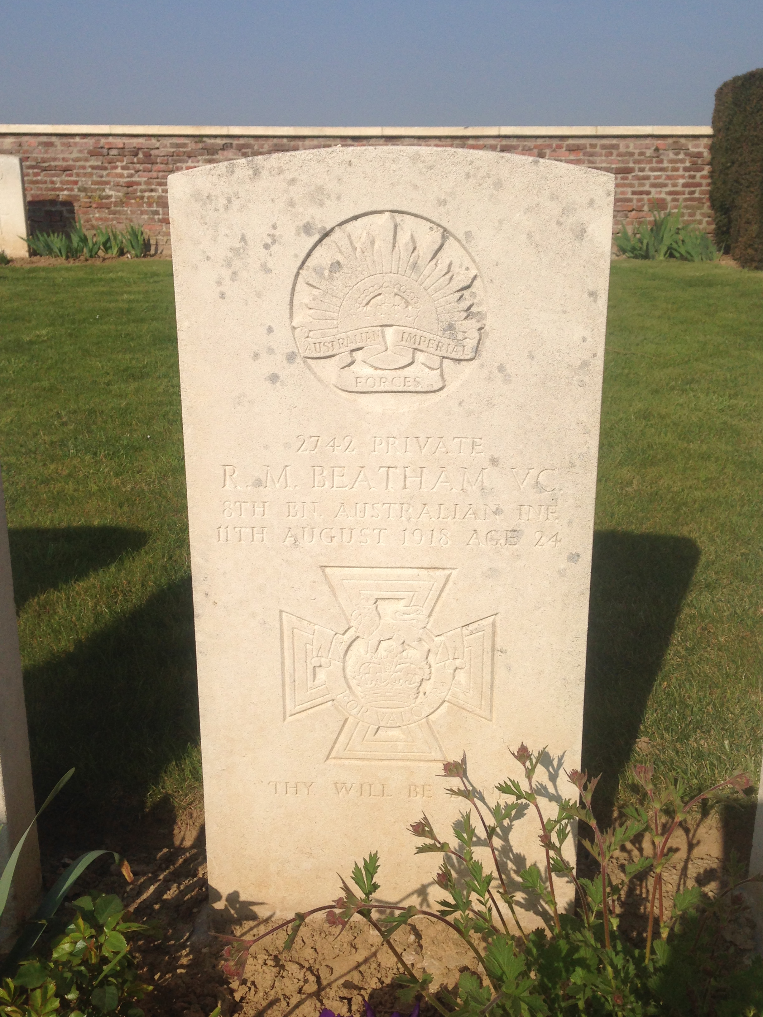 Headstone